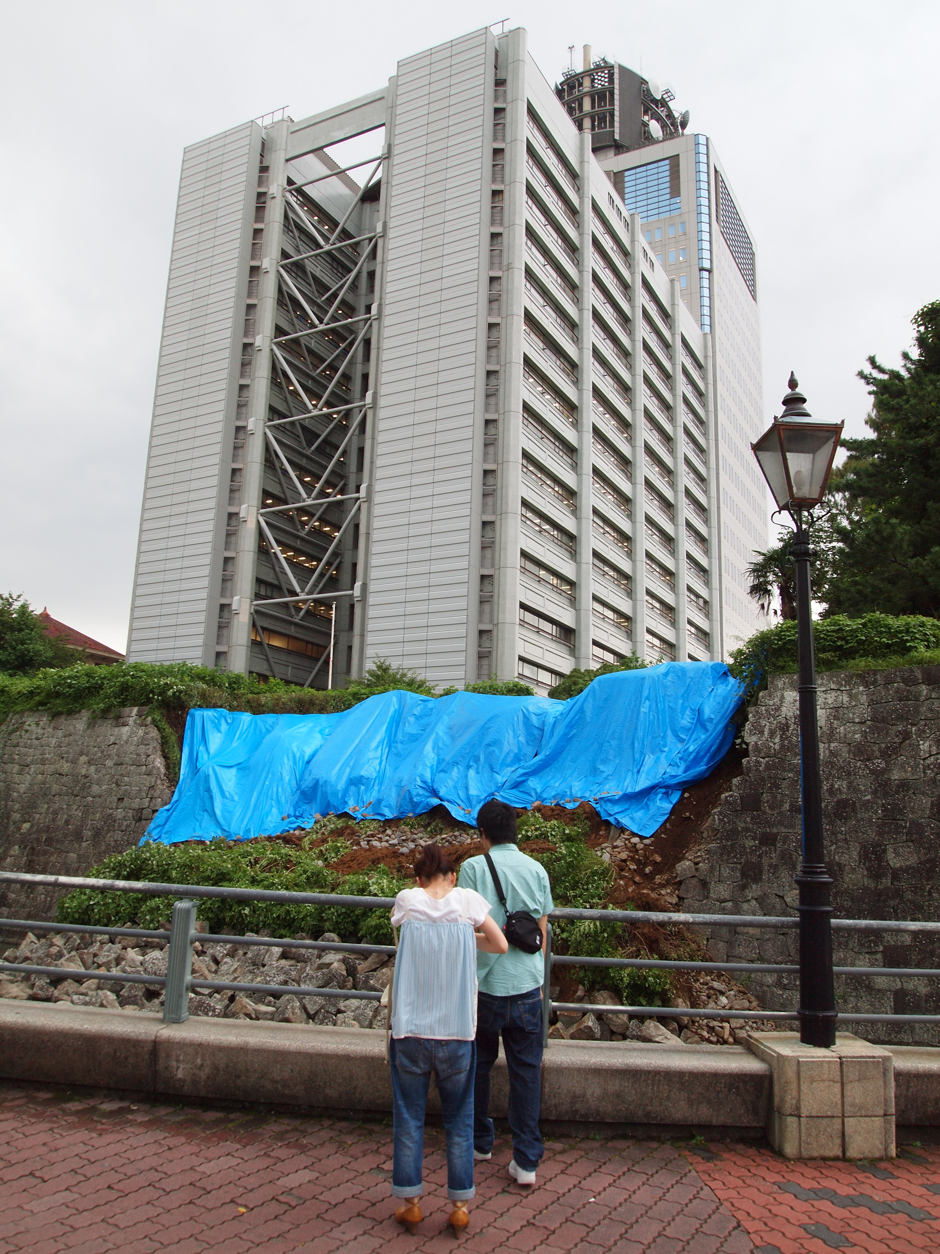 The East Building and the Annex Building, Shizuoka Prefectural Government Office (behind) Stone wall of the Sunpu Castle (front) Shizuoka City, Shizuoka Prefecture